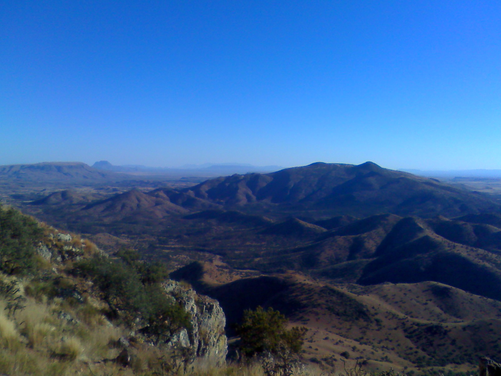 Brewster County is the third highest county in Texas but is arguably the most rugged. This image was taken fifteen miles south of Alpine, Texas facing the south. In the center right is Cienega Mountain at 6,565 feet above sea-level. It's range is called the Pasiano Mountains or the Alps of Texas. In the left is Elephant Mountain, 6,228 feet above sea-level and Santiago Peak at 6,539 feet. They are the southern end of the high Sierra De Norte Range. Lastly, in the distance is the Chisos Mountains in Big Bend National Park. They're home to the highest peak in Brewster County; Emory Peak, 7800 feet above sea-level. Elevation measurements based on Google Earth